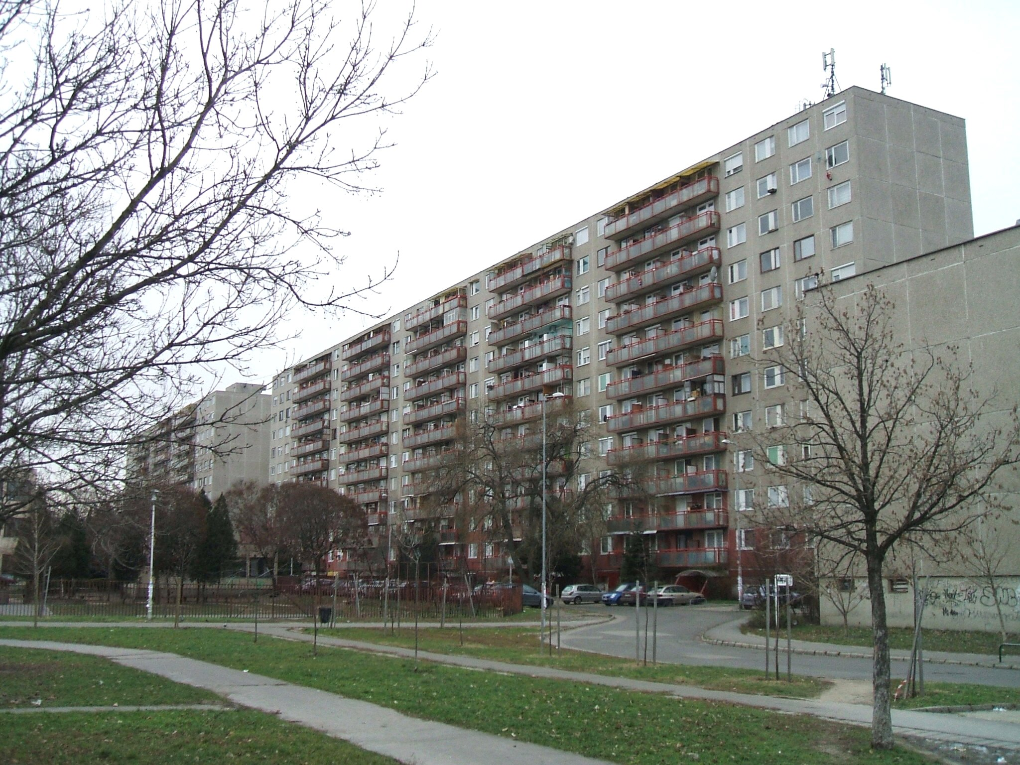 Kispest housing estate (population: c.33,000), Budapest, Hungary